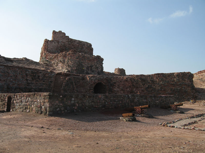 Ruins of the old Portuguese fort (I took it by myself0